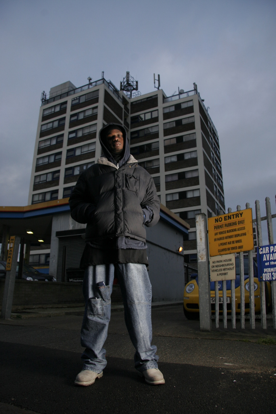 P.C.T Official Promotional Photograph